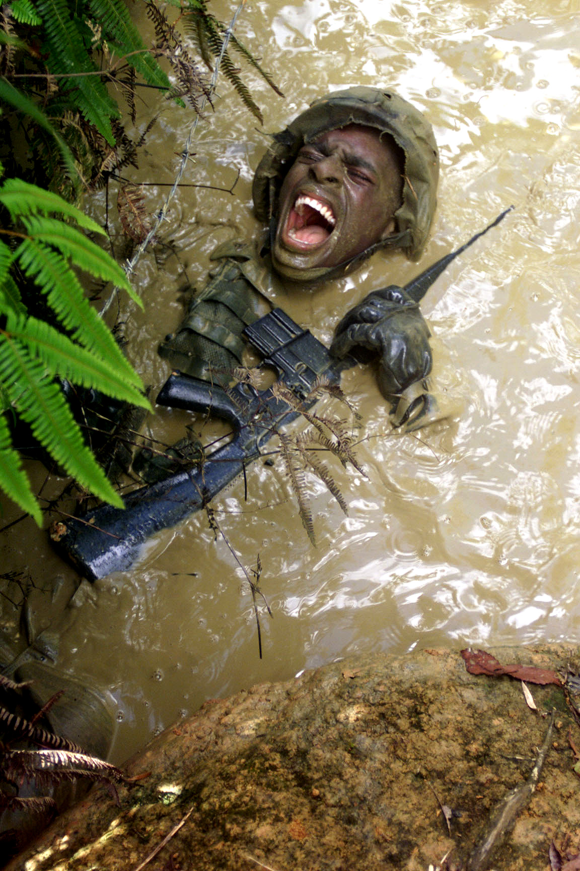 US marine Cpl. Robert D. Adams struggles through a water-filled ditch on the endurance course at the Jungle Warfare Training Center at Okinawa, Japan, on Aug. 3, 2001. The week long training is capped by an endurance course designed to test the Marines' endurance and leadership skills. Adams is a heavy equipment operator with the Marine Expeditionary Unit Service Support Group-31 deployed from Camp Hansen, Okinawa, for the training.